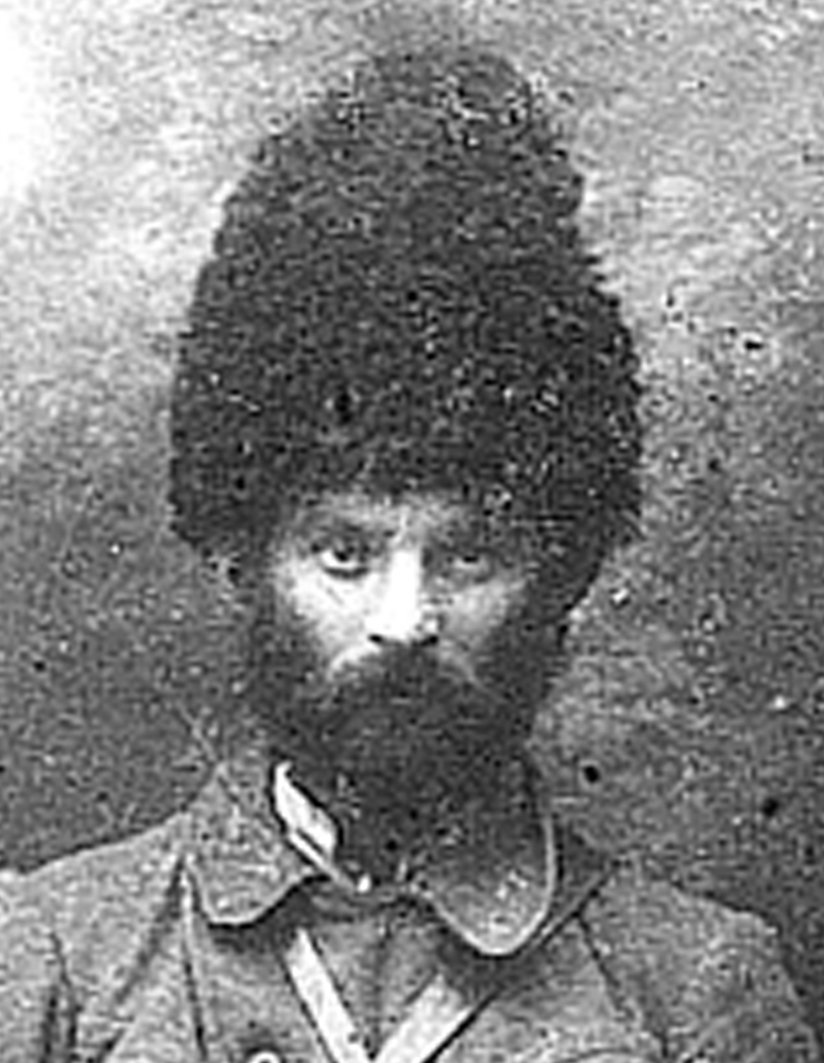 Ljuba Cupa